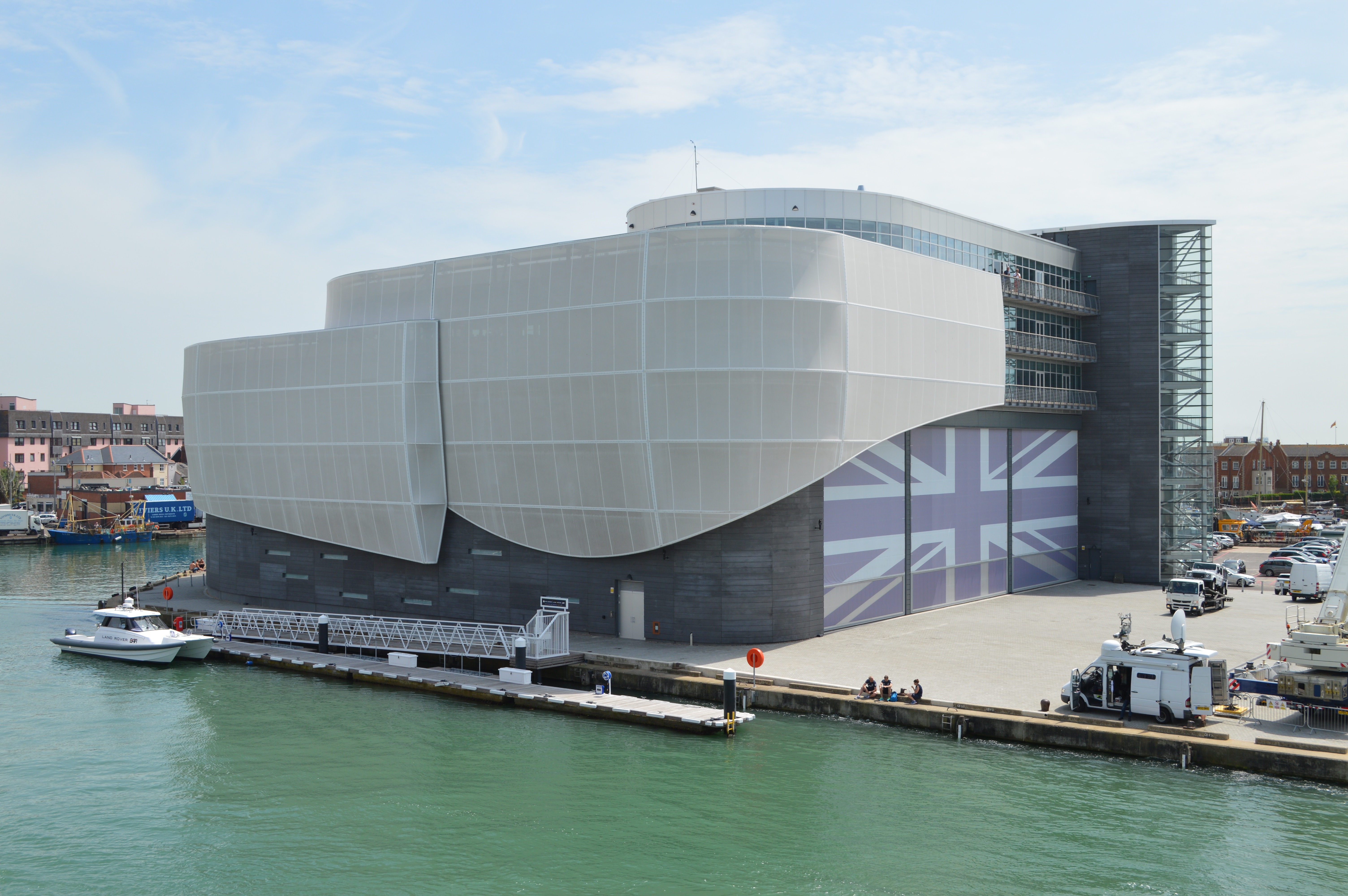 Land Rover BAR Headquarters building in Portsmouth.